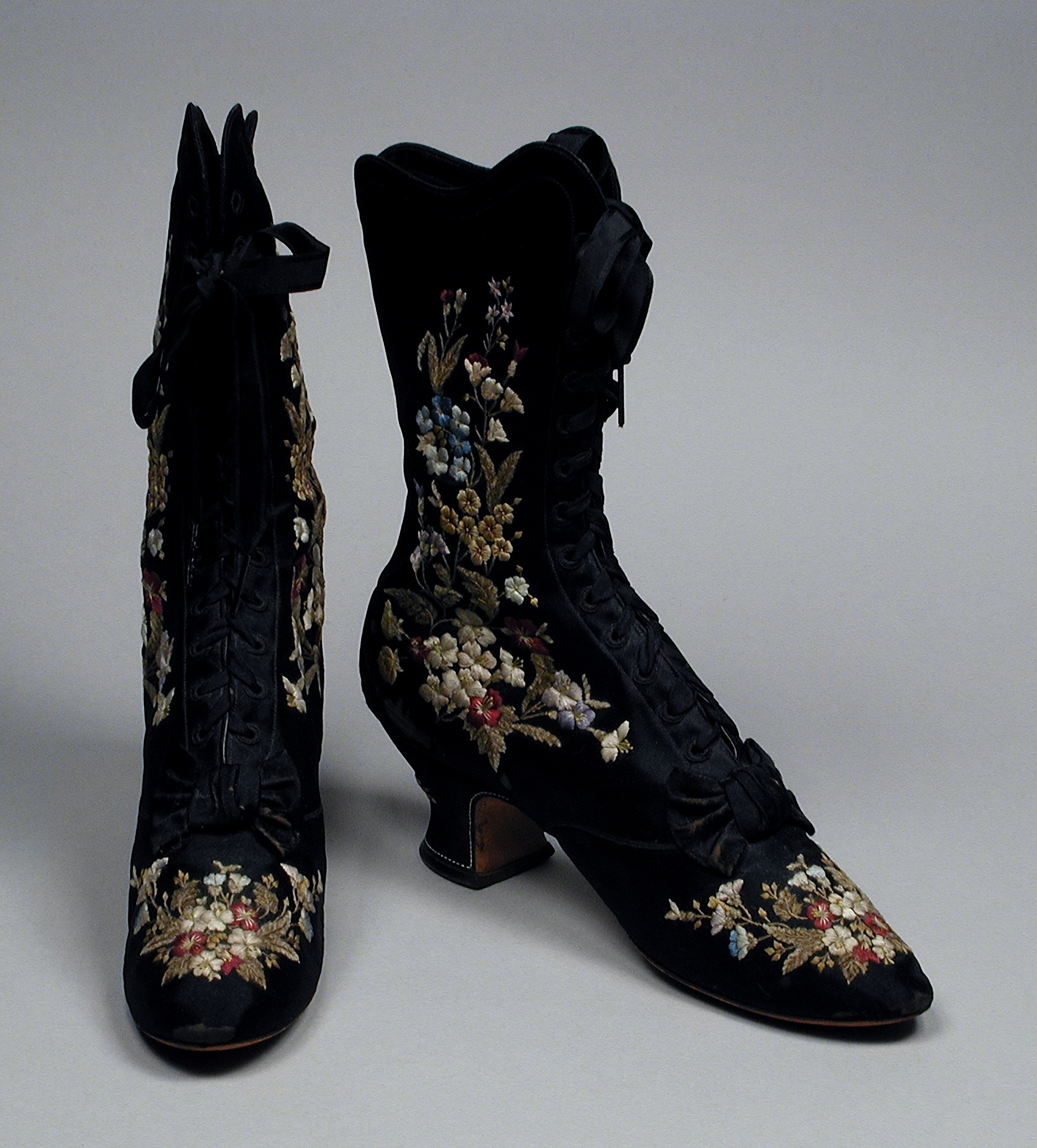 Pair of woman’s boots